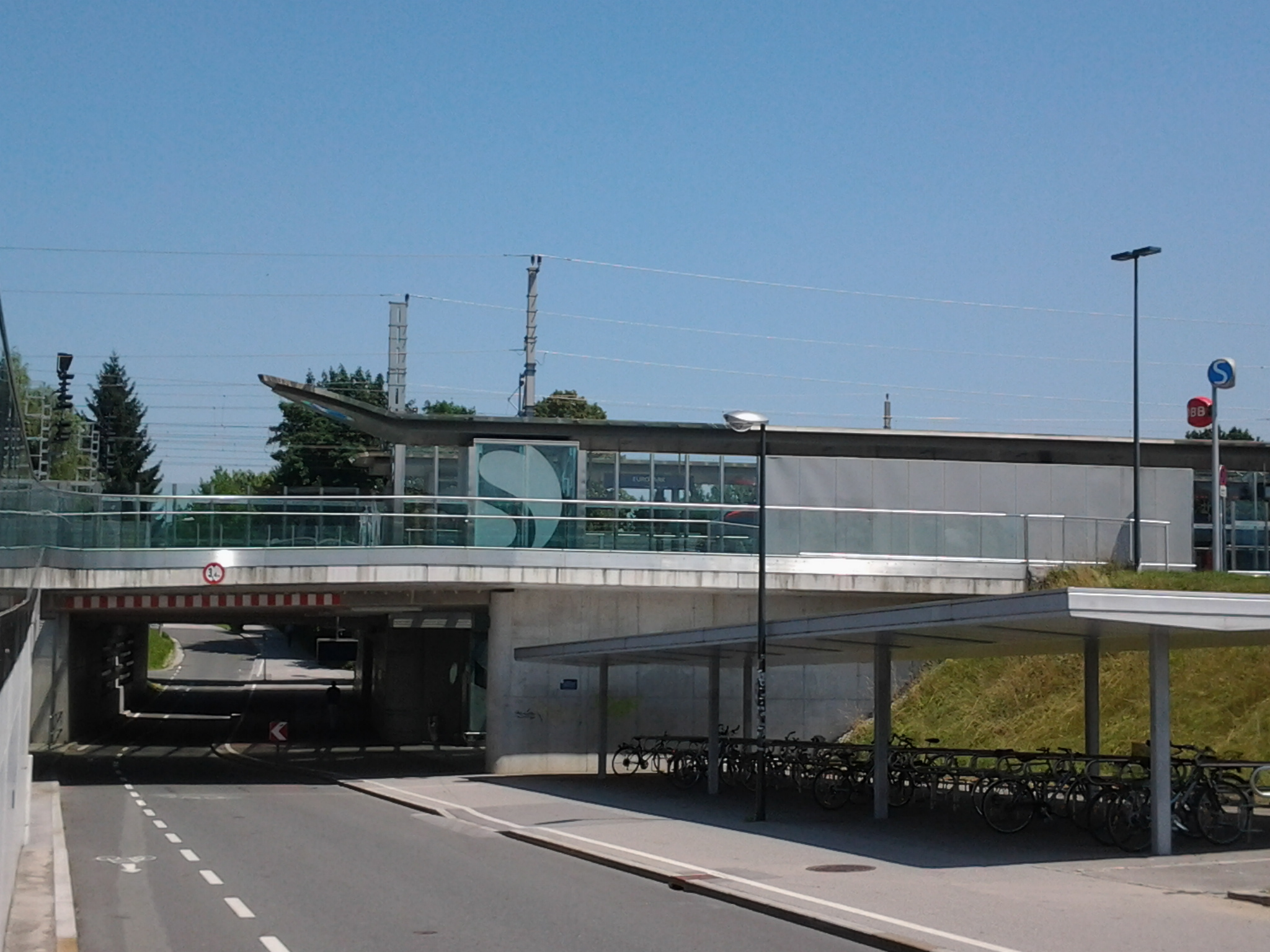 Train stop Salzburg Taxham Europark, city of Salzburg, Austria.